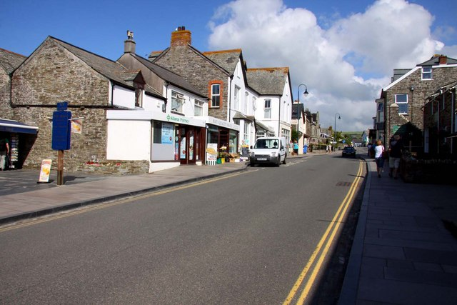 Fore Street in Tintagel